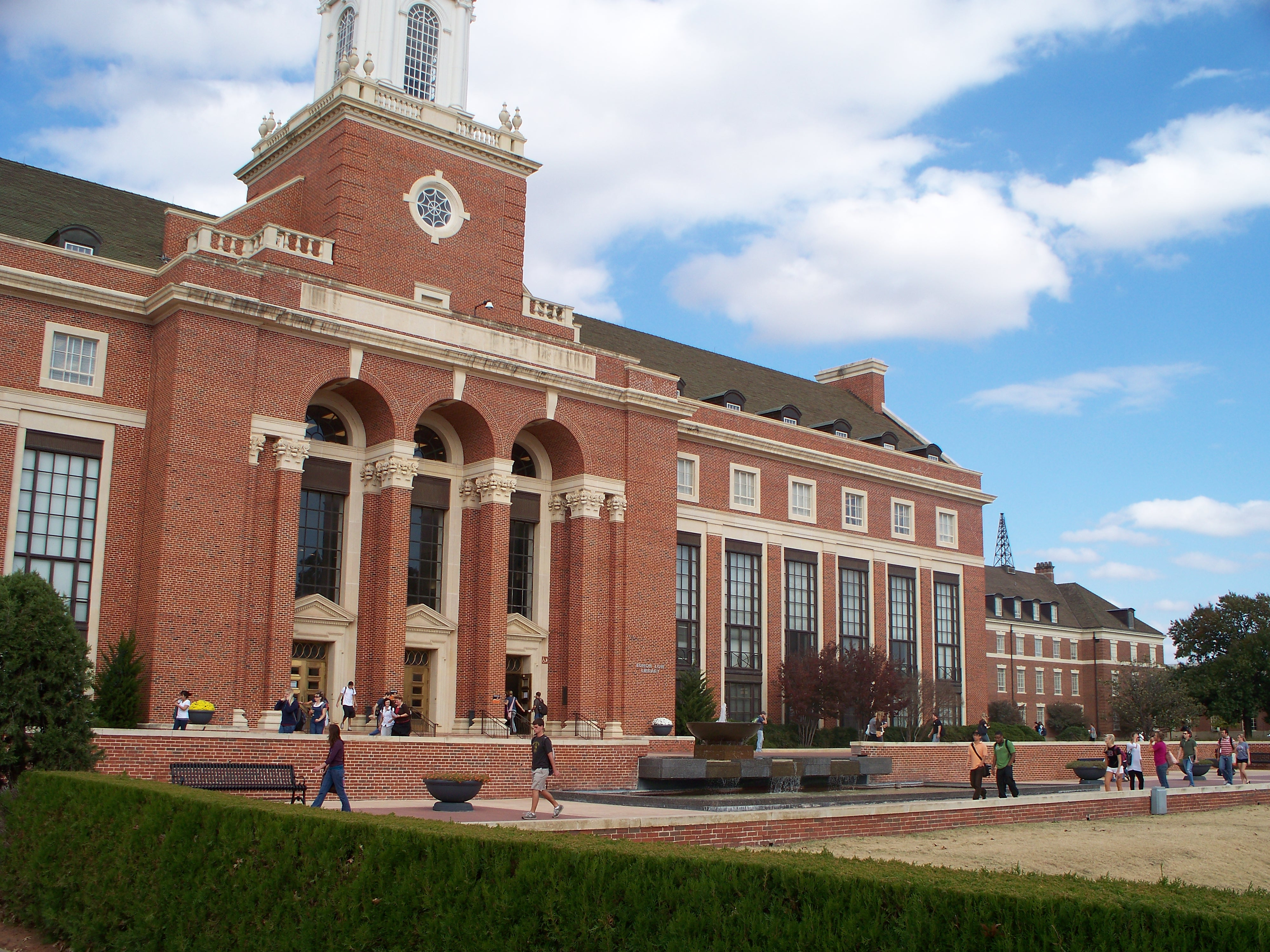 Edmon Low Library on the Oklahoma State University Stillwater Campus during Autumn 2008.